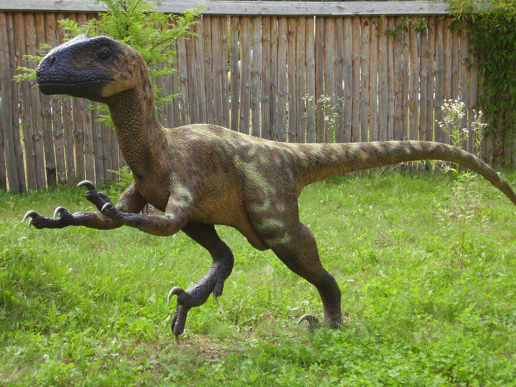 Deinonychus antirrhopus model in Baltów (Poland).